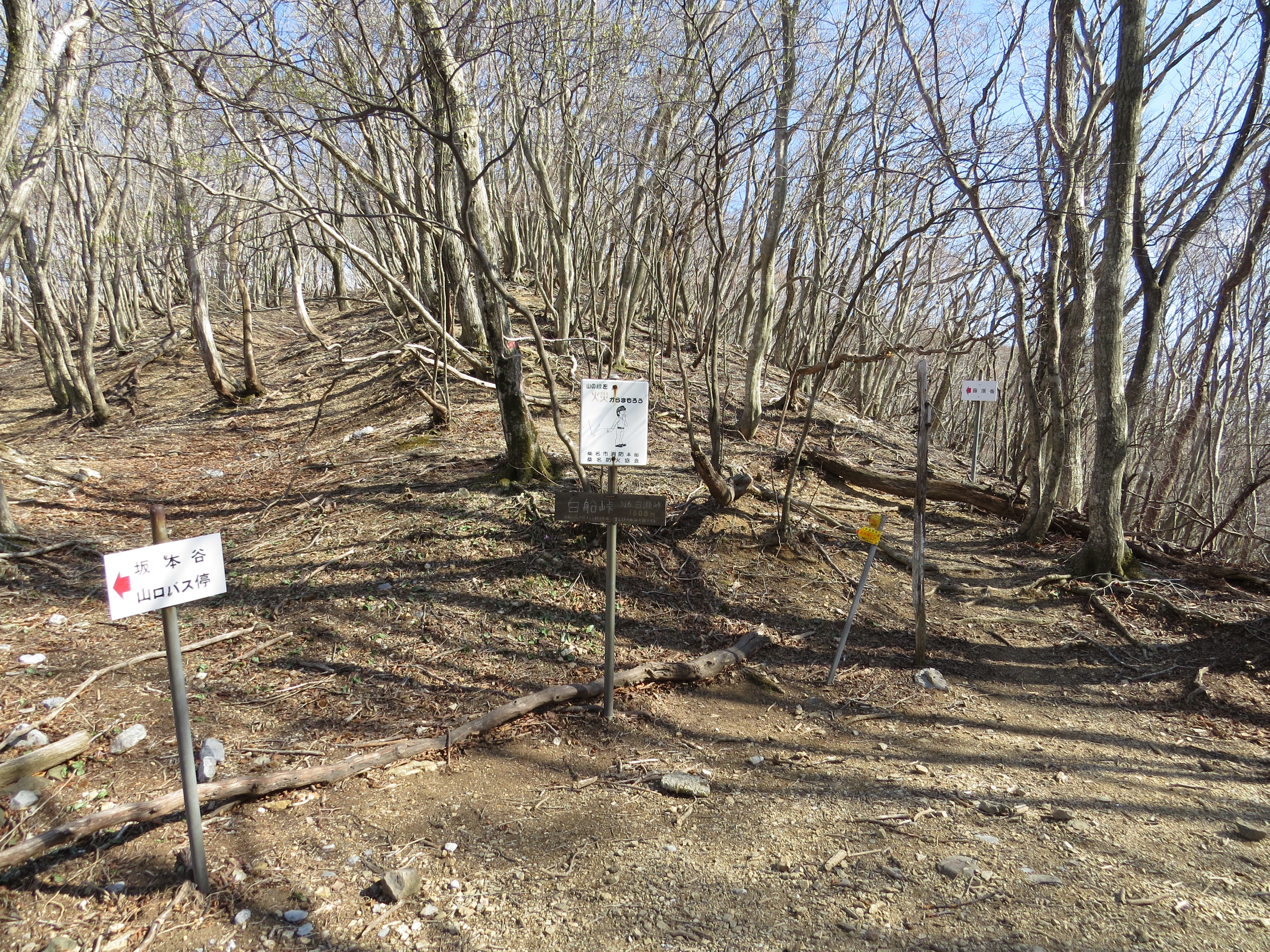 Shirase Pass in the Suzuka Mountains, Japan